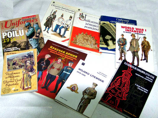 Books on miitary uniforms in several languages